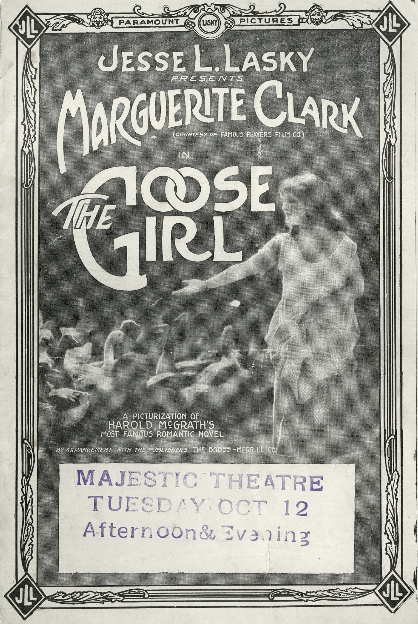 The Goose Girl was a 1915 silent drama film directed by Frederick A. Thomson and distributed by Paramount Pictures.